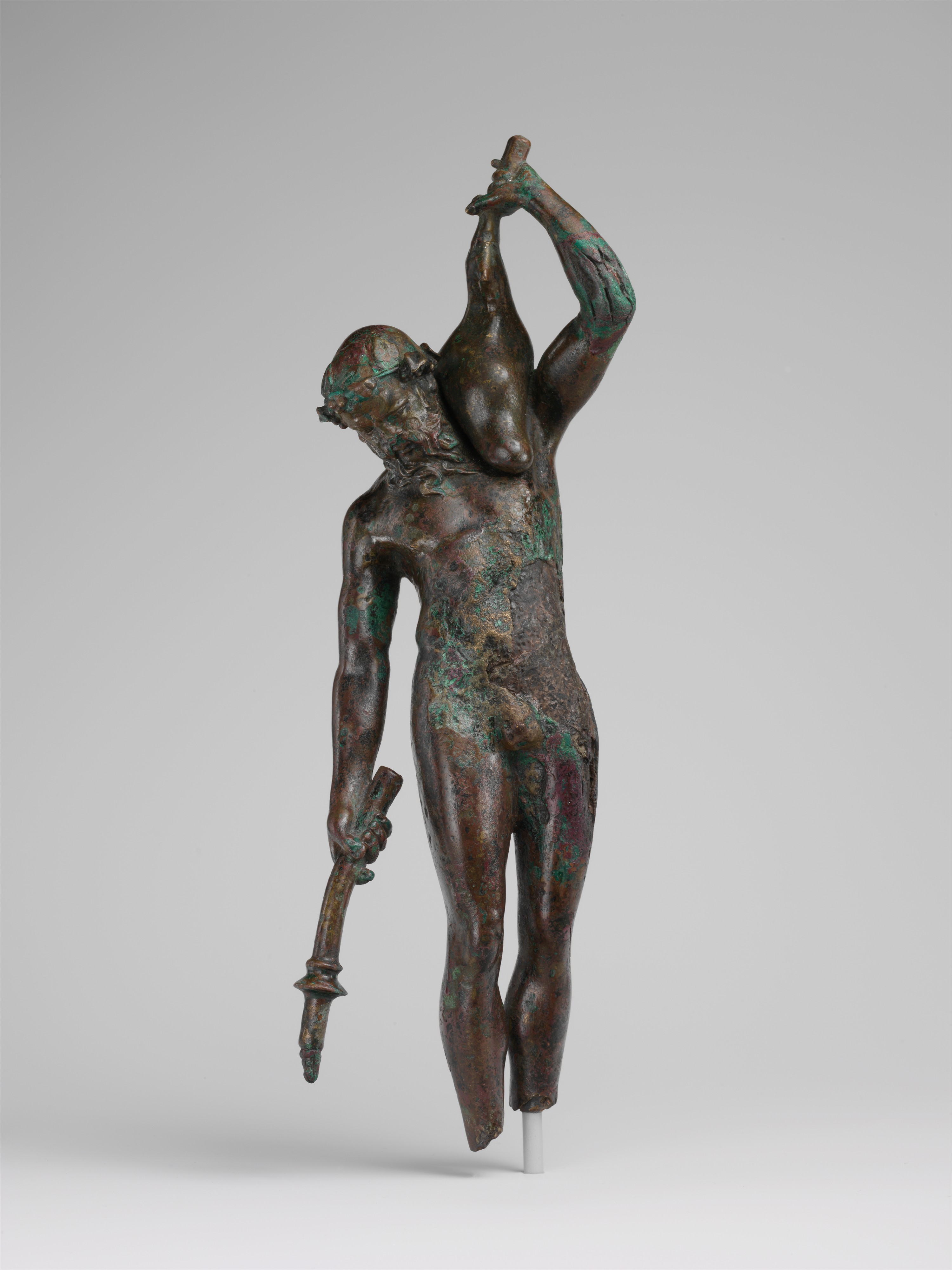 Greek; Statue of a satyr including a torch and a wineskin; Bronzes